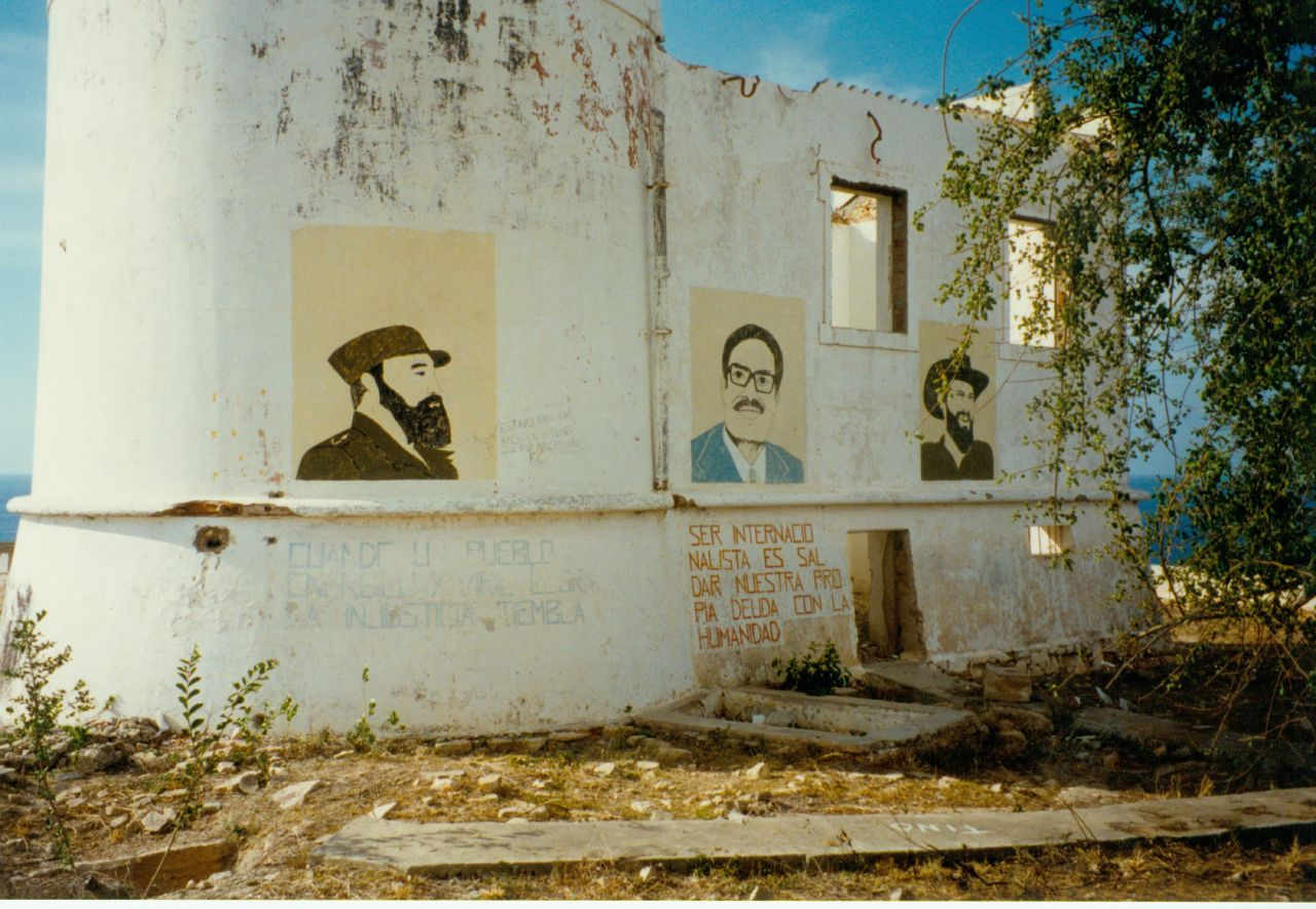 Lobito Lighthouse, Angola. During the civil war the building was totally destroyed, photo year 1995